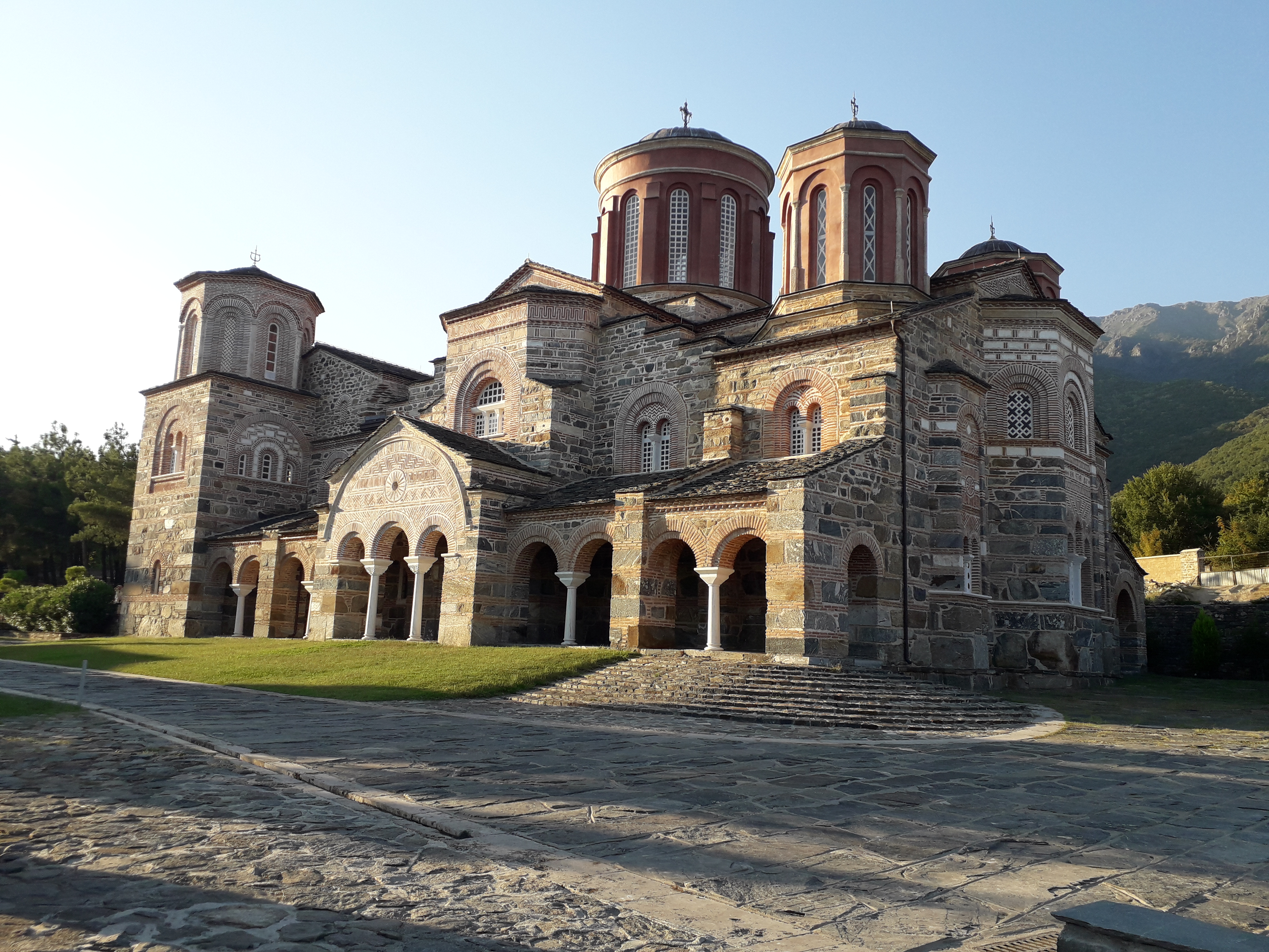 Yoan Prodromos Dervent